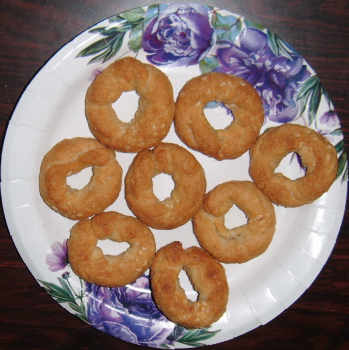 Abadi Cookies